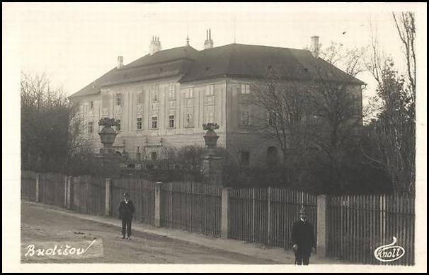 View of Budišov Castle in 1919 in Budišov, Třebíč District.